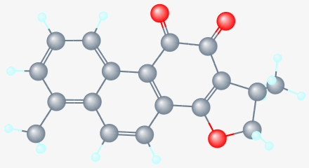 Dihydrotanshinone I 3D conformer